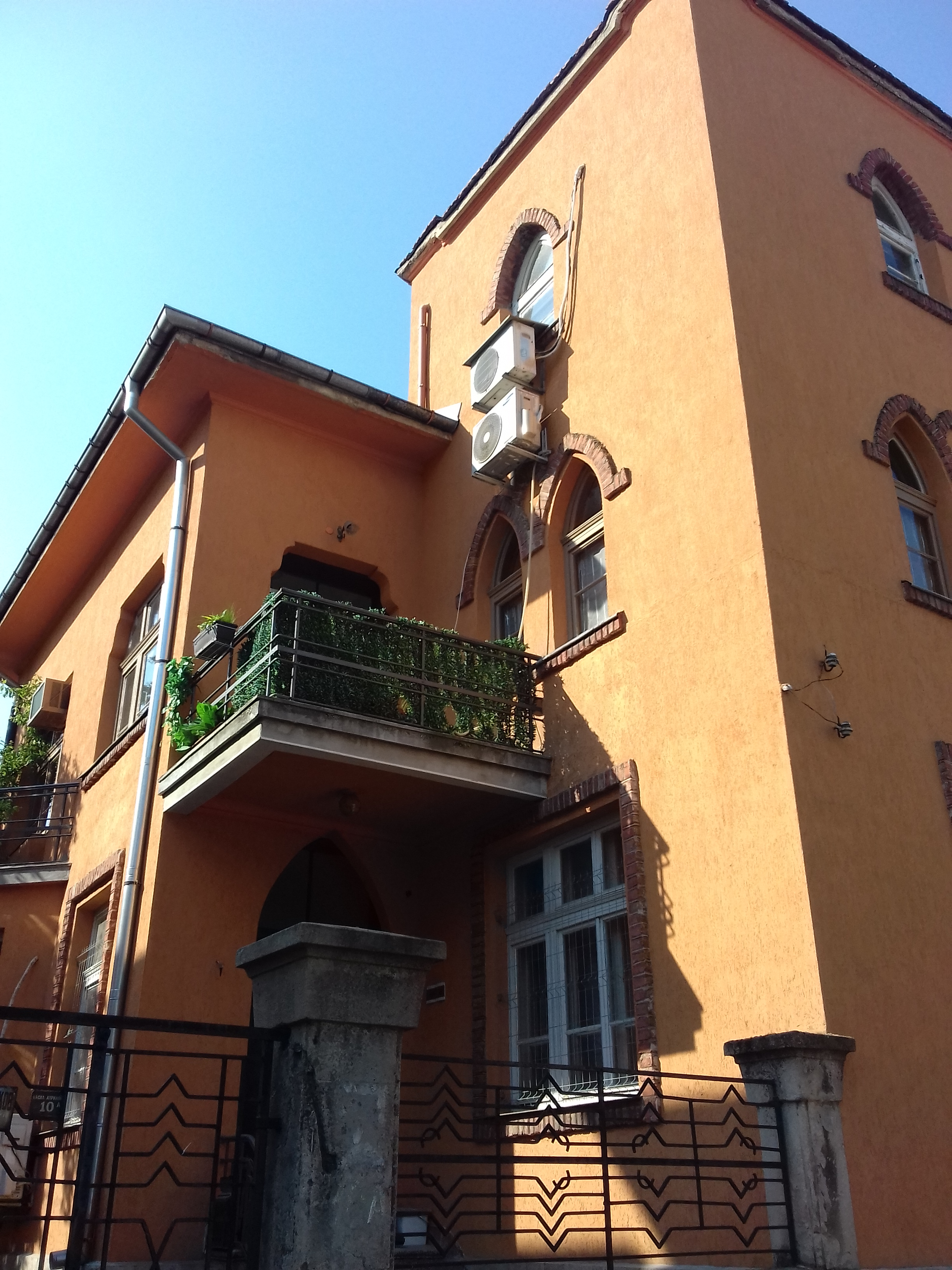 Nikolay Trankov's House in Stara Zagora, Bulgaria